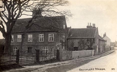 Saltfleet Manor House, Saltfleet, Lincolnshire, England, dated 1899, taken from a contemporary postcard.